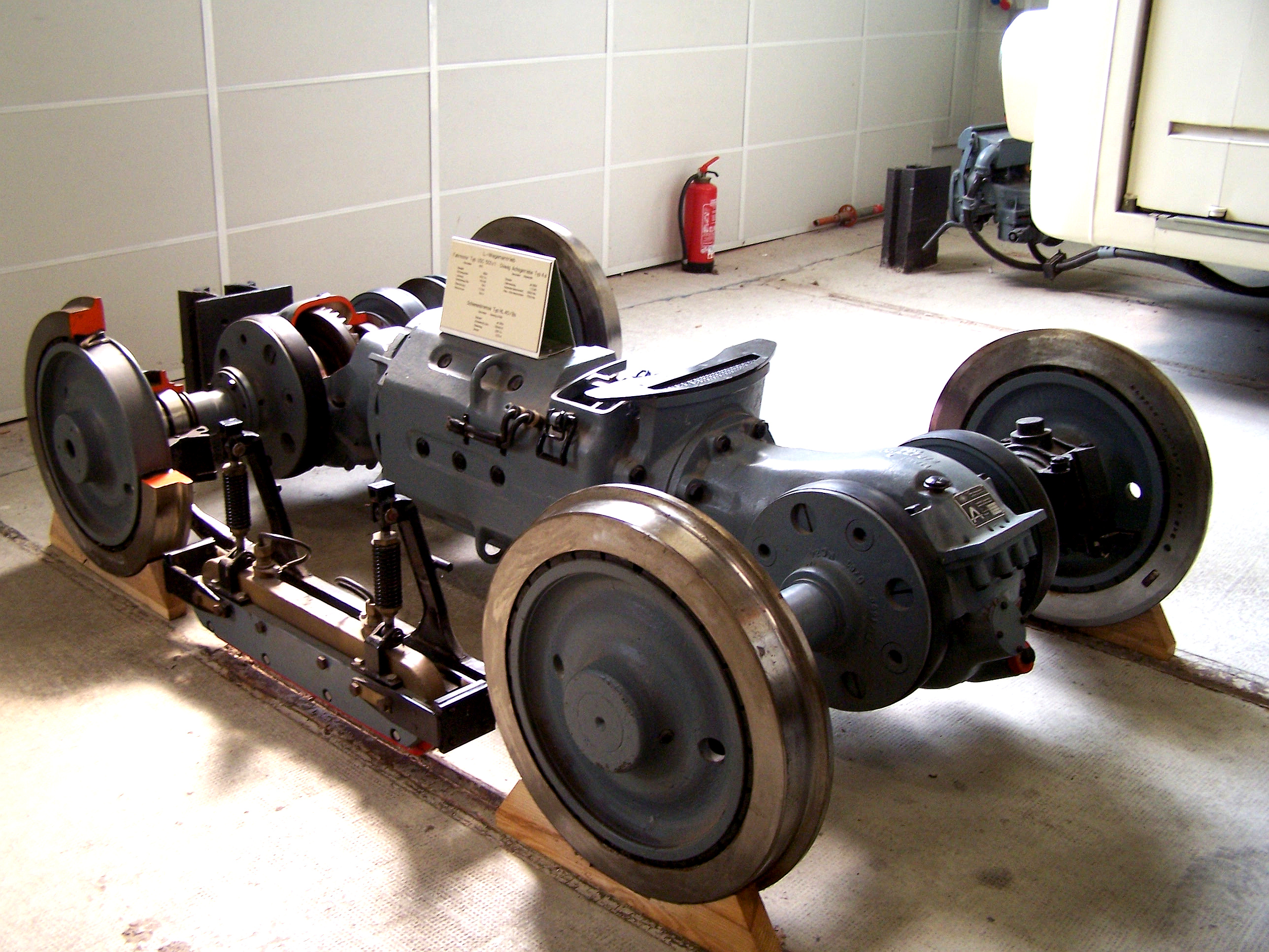 bogie of a tram type L in the Frankfurt on Main Transport Museum in Frankfurt am Main-Schwanheim